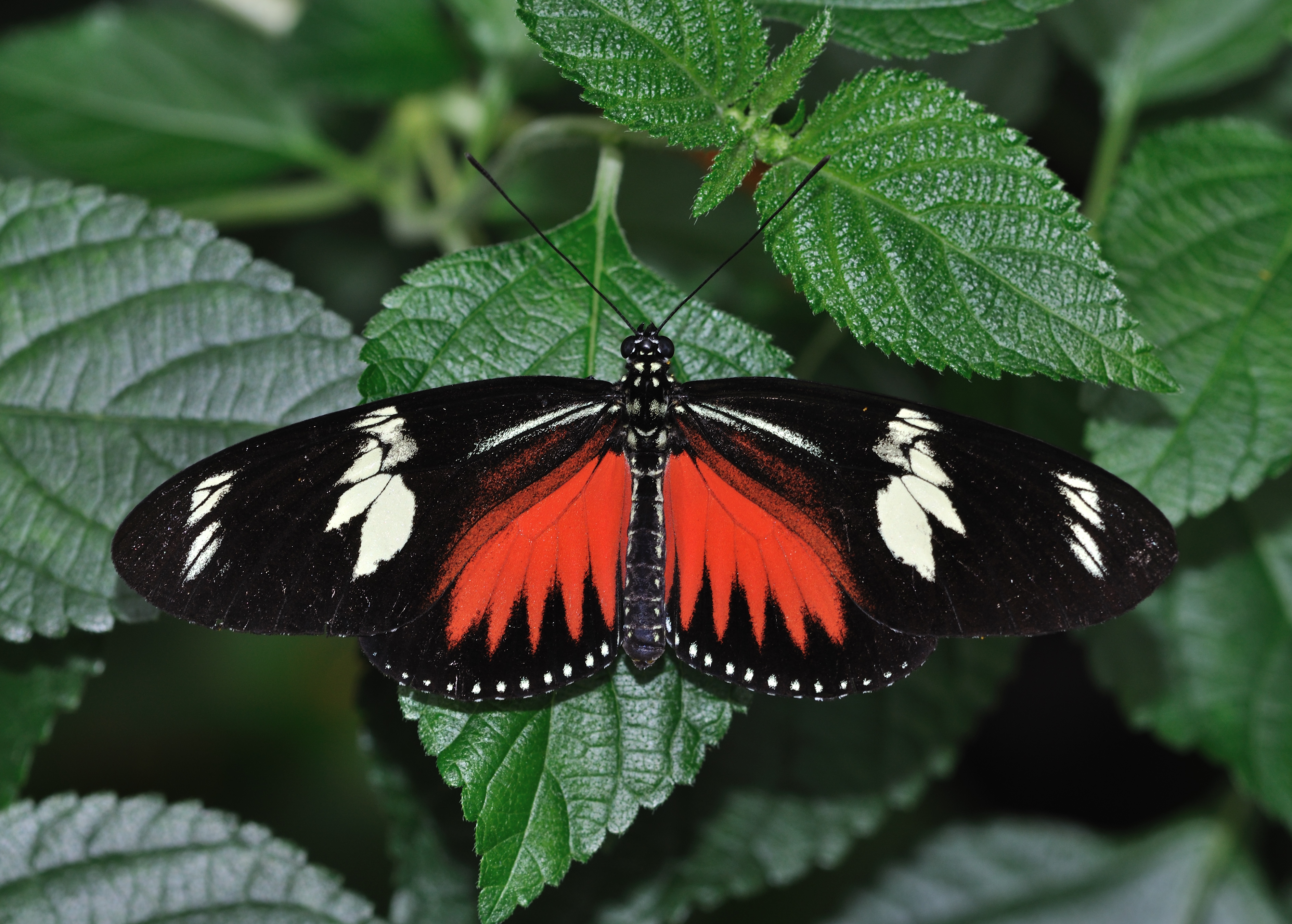 Doris Longwing (Laparus doris viridis) in the butterfly house of Maximilianpark Hamm, Germany.